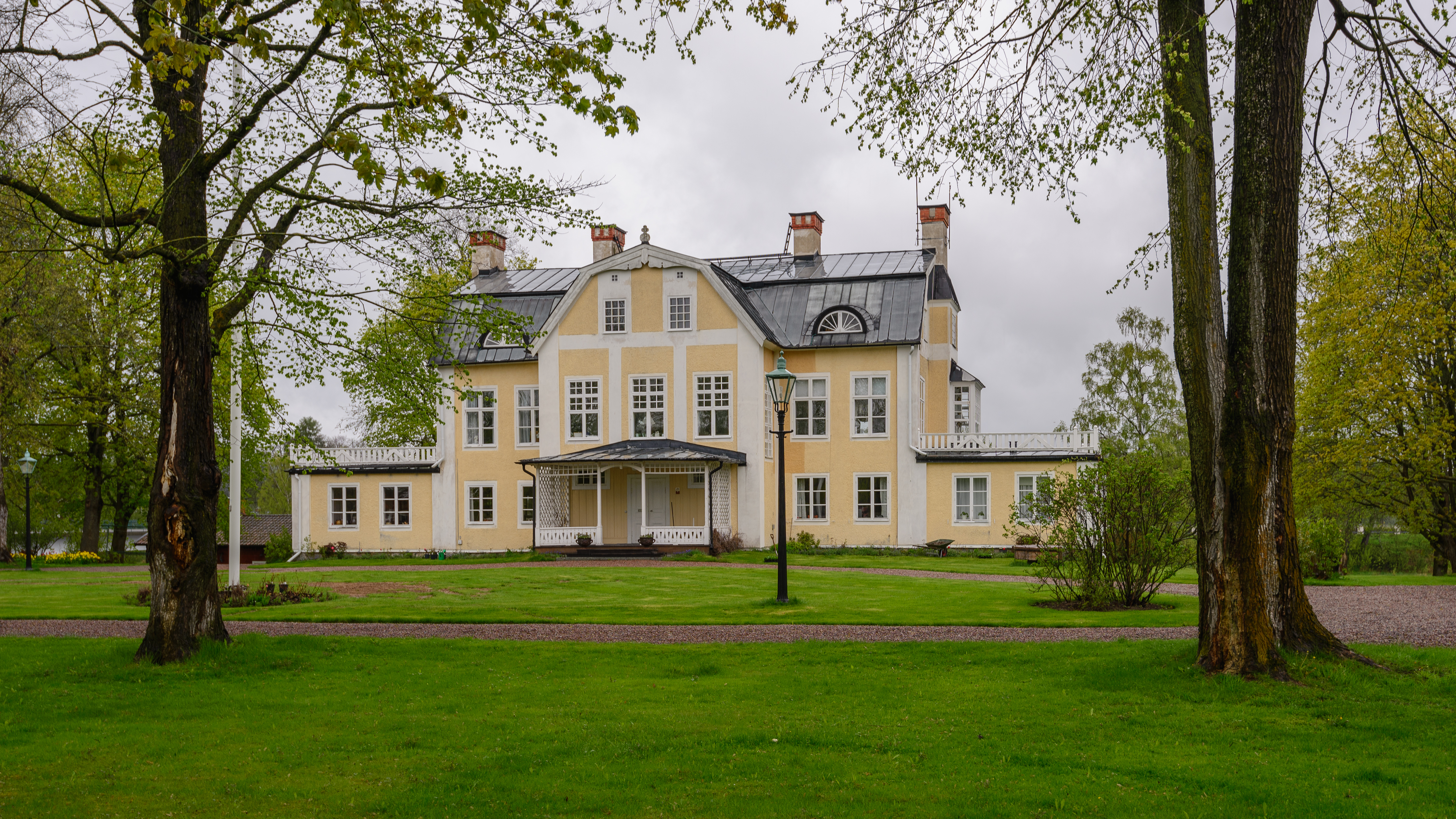 Husby kungsgård, a historic mansion in Husby, Hedemora Municipality.